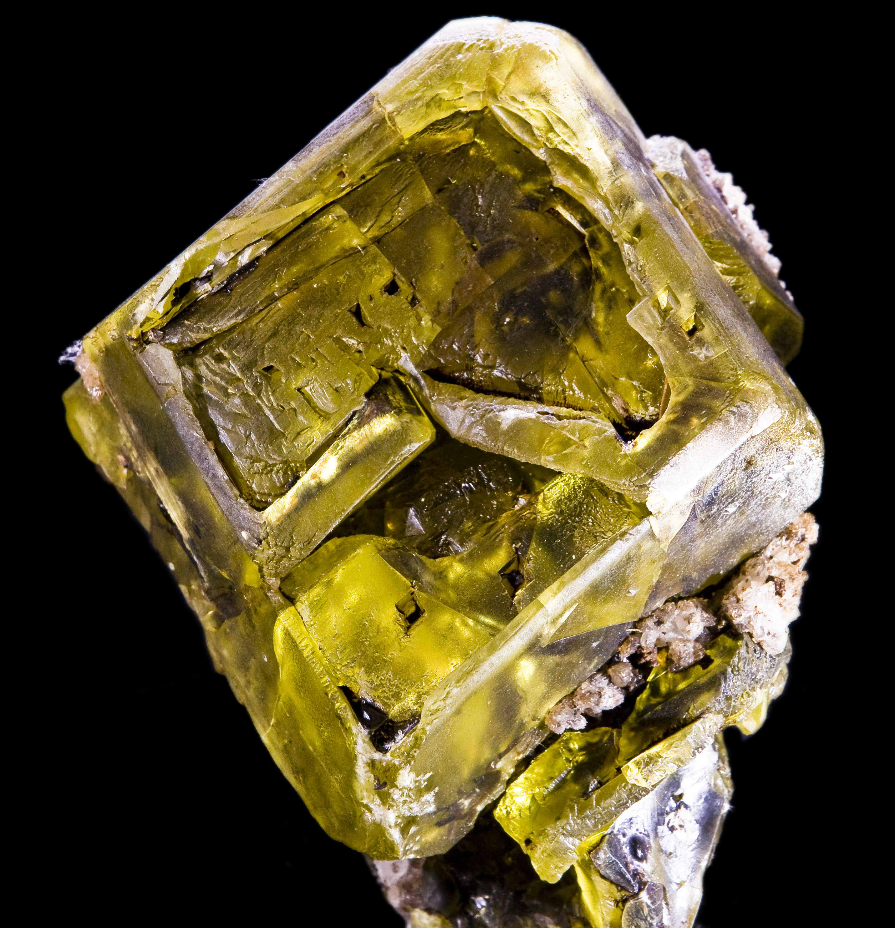 Sulphur with bitumen Locality : Cozzodisi Mine, Casteltermini, Agrigento Province, Sicily, Italy - Those dark areas you see are the bituminous inclusions Size : 8x6.5x5.8cm